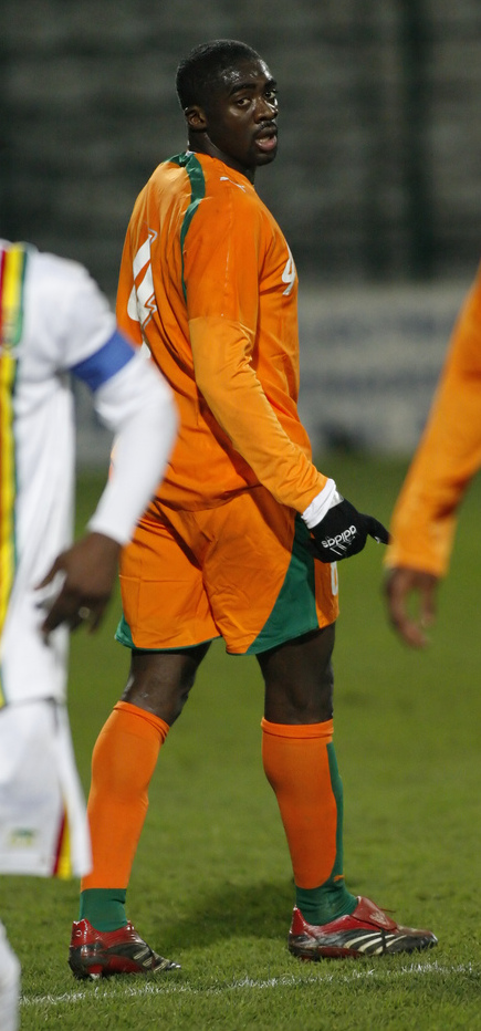 Ivorian player Kolo Touré during match Guinea vs. Côte d'Ivoire at Stade Robert Diochon, Rouen, France.